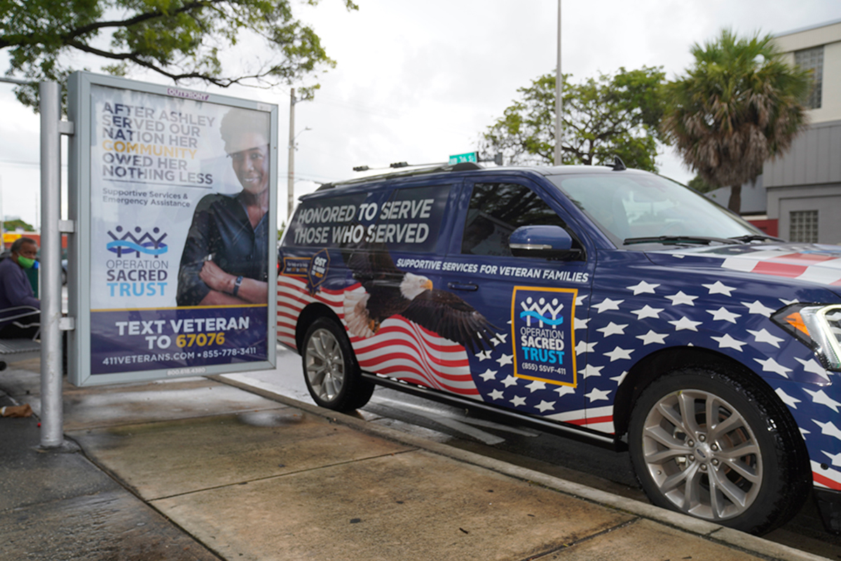 Operation Sacred Trust Supportive Services for Veteran Families Outreach in Miami, Florida.